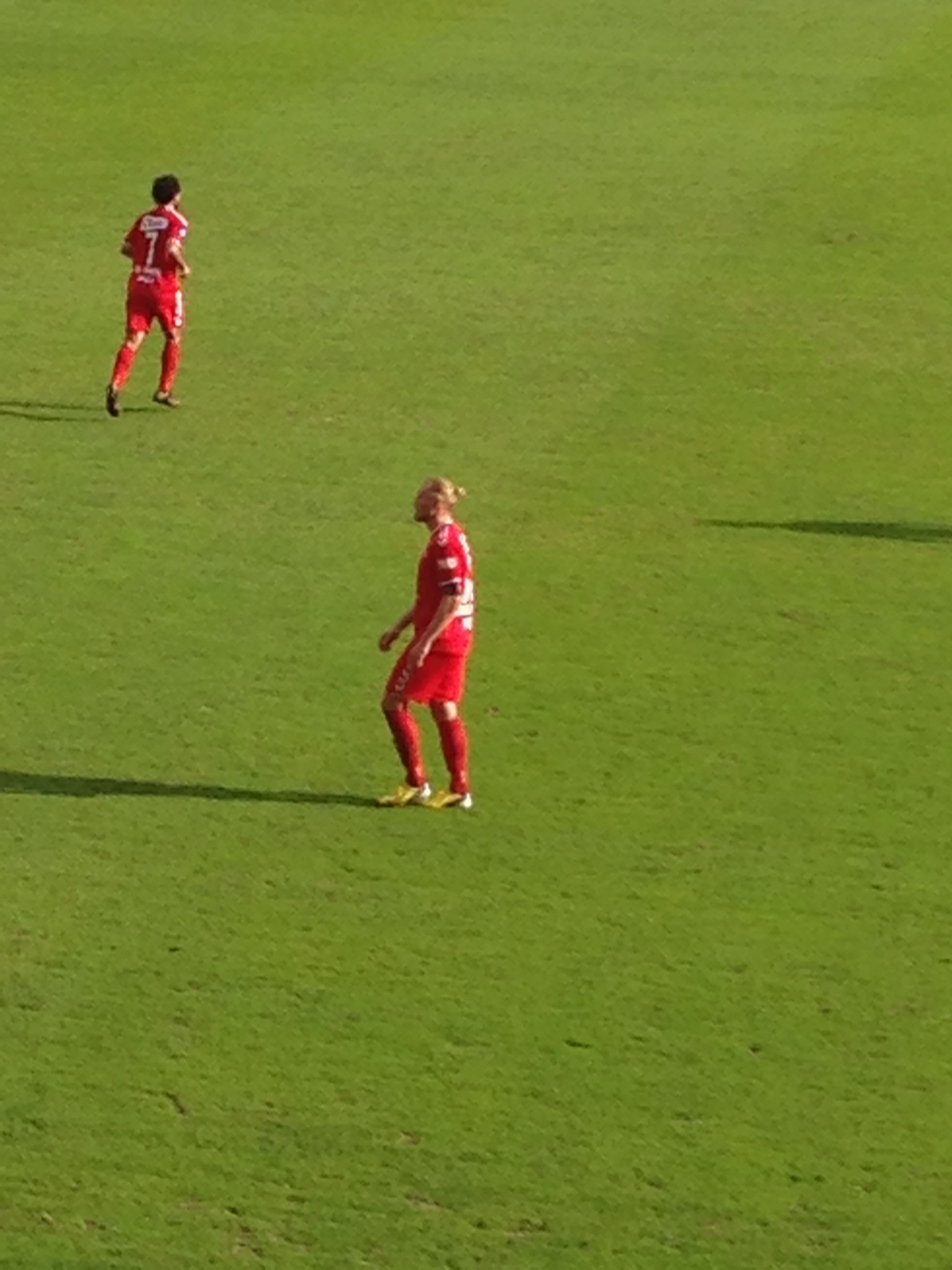 Tomasz Sokolowski